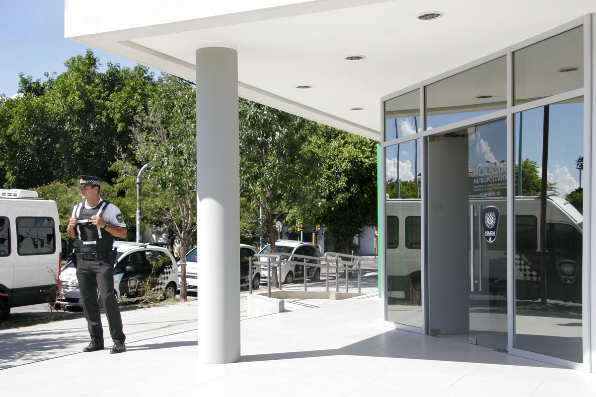 The first police station of the Buenos Aires' Metropolitan Police, located in Saavedra.